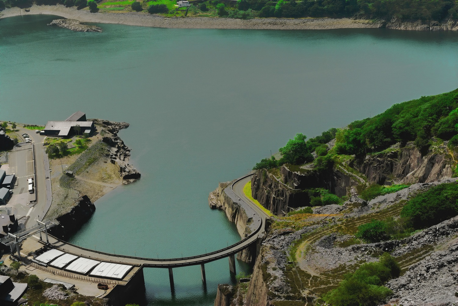 North Wales. Llyn Peris as seen from the Dinorwig to Nan Peris slate trail. Llyn Paris is used as the lower reservoir for the Hydro-electric power station built into the mountainside. Water from an upper reservoir (Marchyn Mawr) generates electricity during daytime peaks but at night when the demand lessens the same turbines pump the water up to upper reservoir for use the next day. You are looking down at the outlet from the mountain into Llyn Peris.